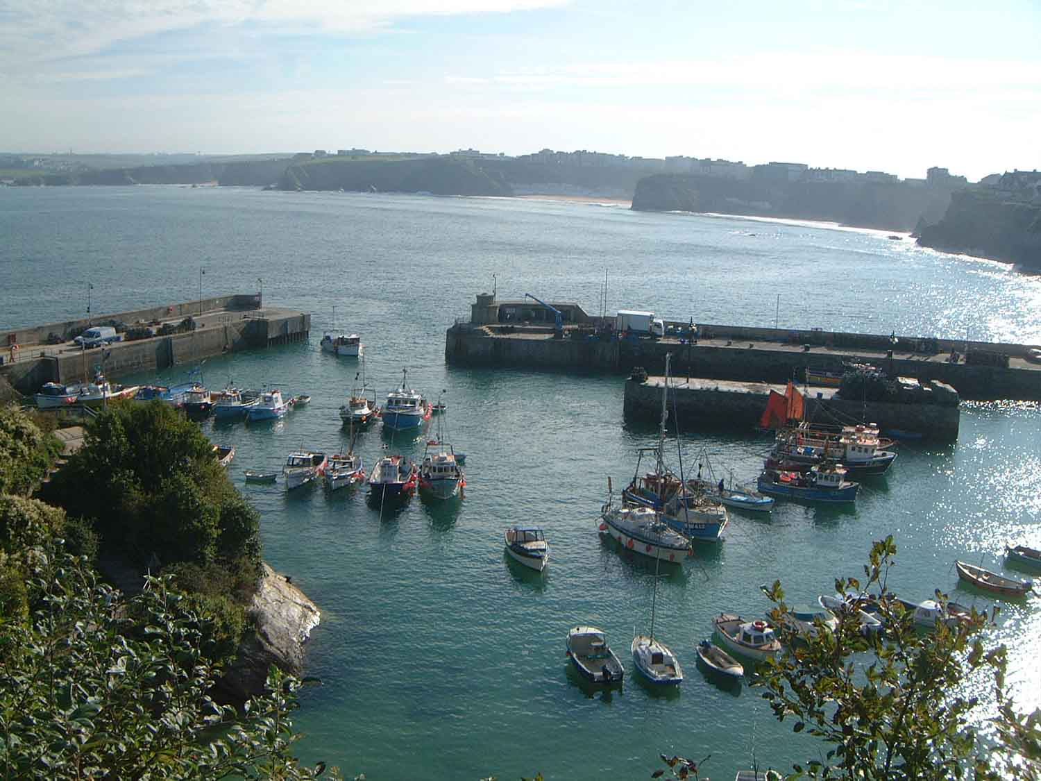 Personal photograph taken by Mick Knapton on 15th September 2003